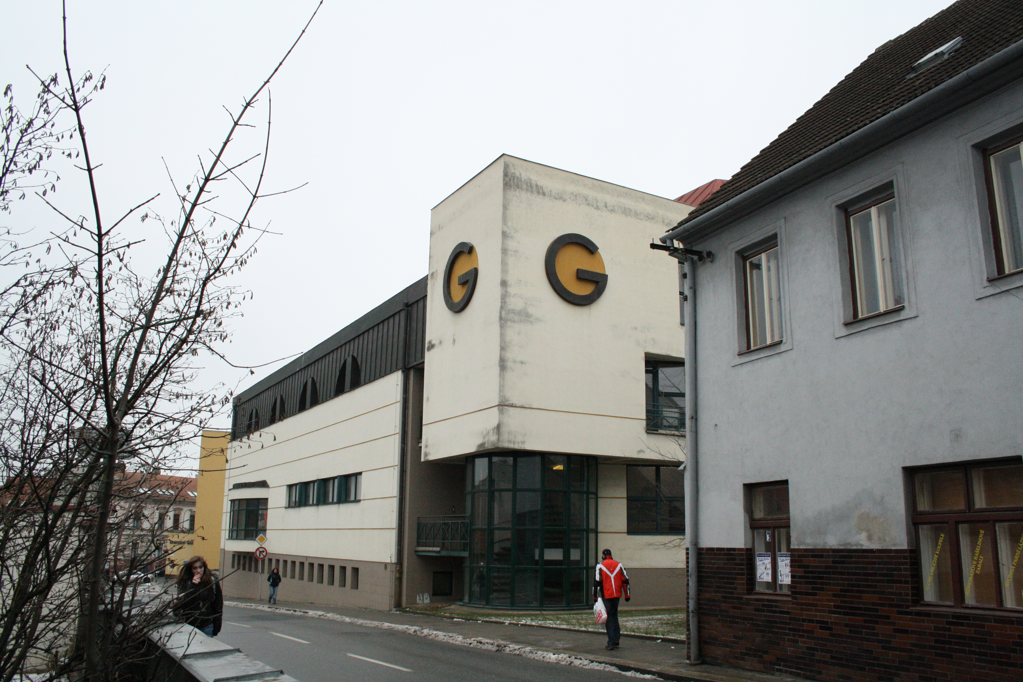 New building of Třebíč Gymnzáium.